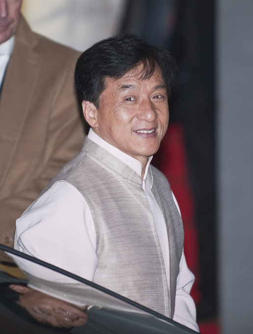 Jackie Chan arriving for the press conference DA BING XIAO JIANG (Little Big Soldier).